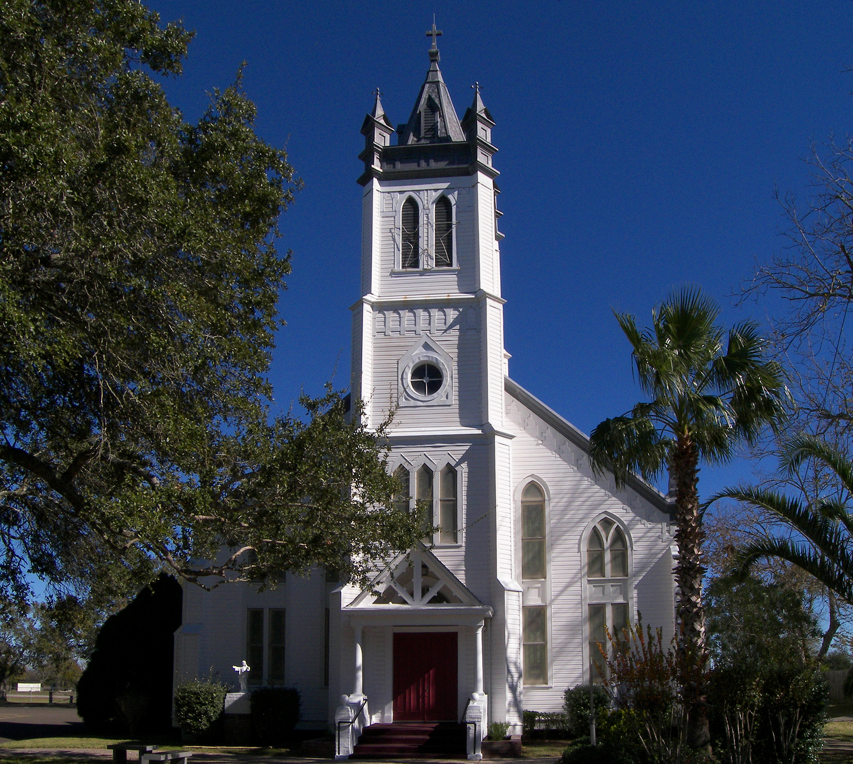 The Church of the Guardian Angel, Wallis, Texas, United States. The church was listed on the National Register of Historic Places on June 21, 1983.